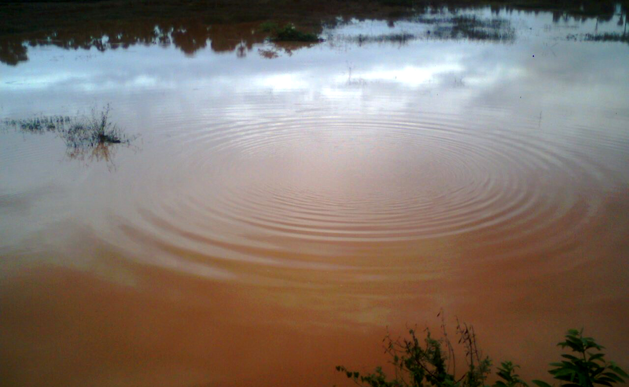 Ripples in a Pond filled with rain water at Padmanabham, Visakhapatnam district